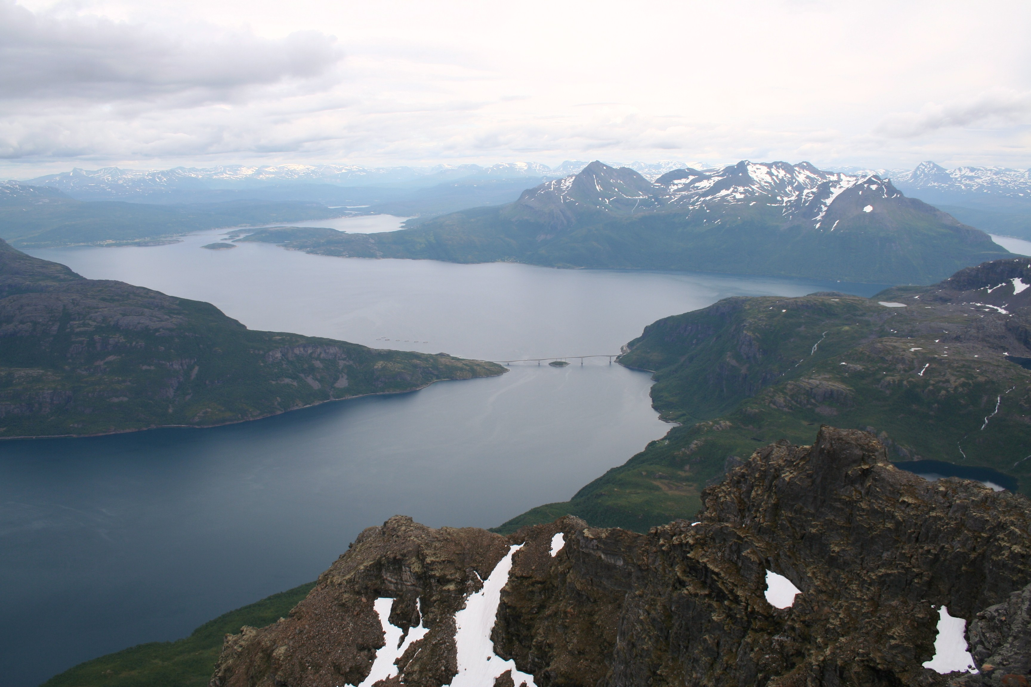 The picture shows the view from the Northwest of Mjøsundet between Ibestad and Salangen in Troms, Norway. The bridge is named Mjøsundbrua. The fjord towards the left of the picture is named Salangen, and after turning right it is called Sagfjorden. The slightly visible fjord on the far right of the picture is Lavangen. The mountains on the other side of Sagfjorden are from left to right: Høgfjellet, Rundkollen (Lifjellet), Elveskardtindan and Reitetindan.